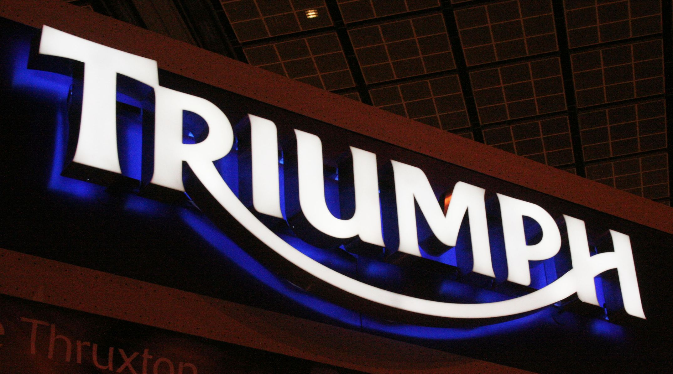 Illuminated sign of Triumph motorcycle logo